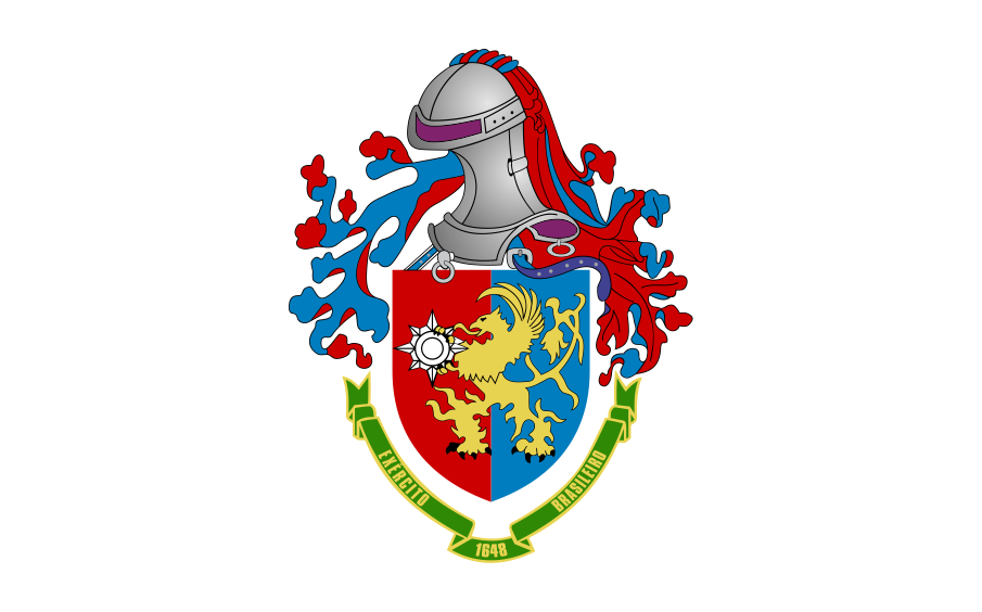 Flag of the Brazilian Army, adopted in 1987.